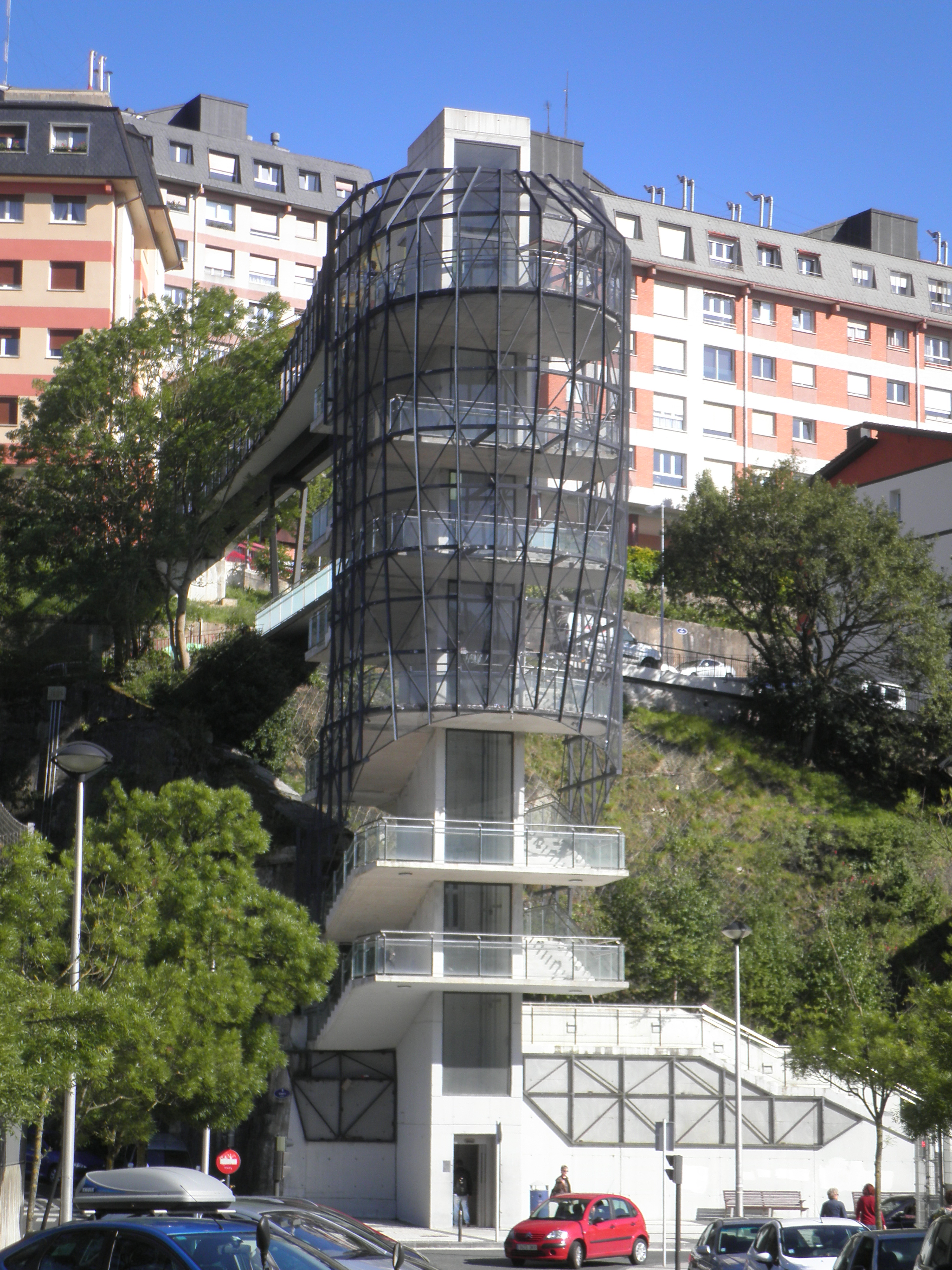 Lift in Antigua, Donostia.